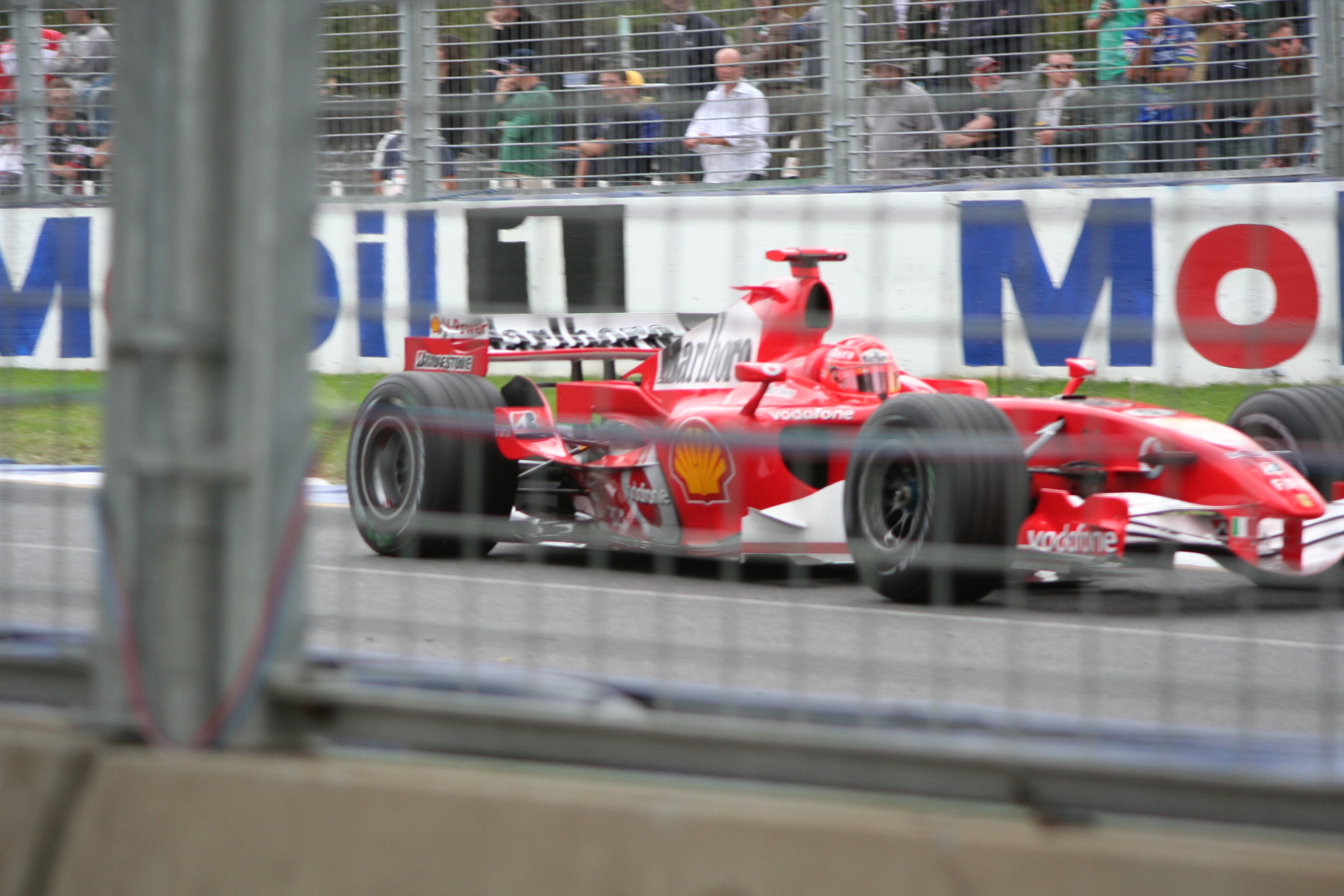 Michael Schumacher in action at the 2006 Australian GP